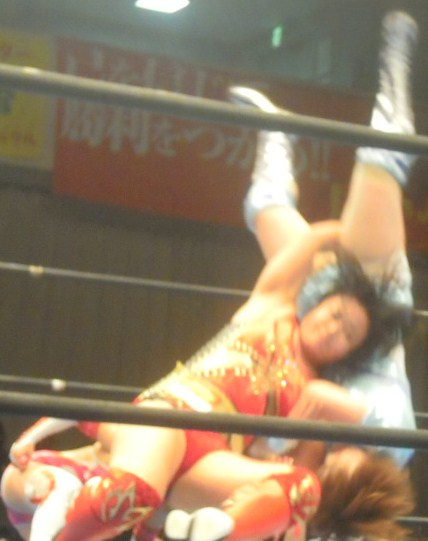 Death Valley Bomb by Meiko Satomura. Dec 25 2011 Ice Ribbon Korakuen Hall.